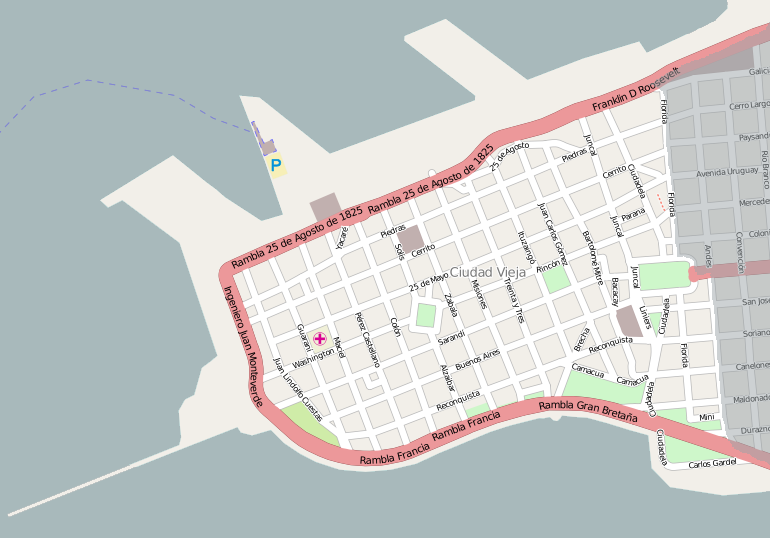 Map of Old Town, Montevideo, Urugay